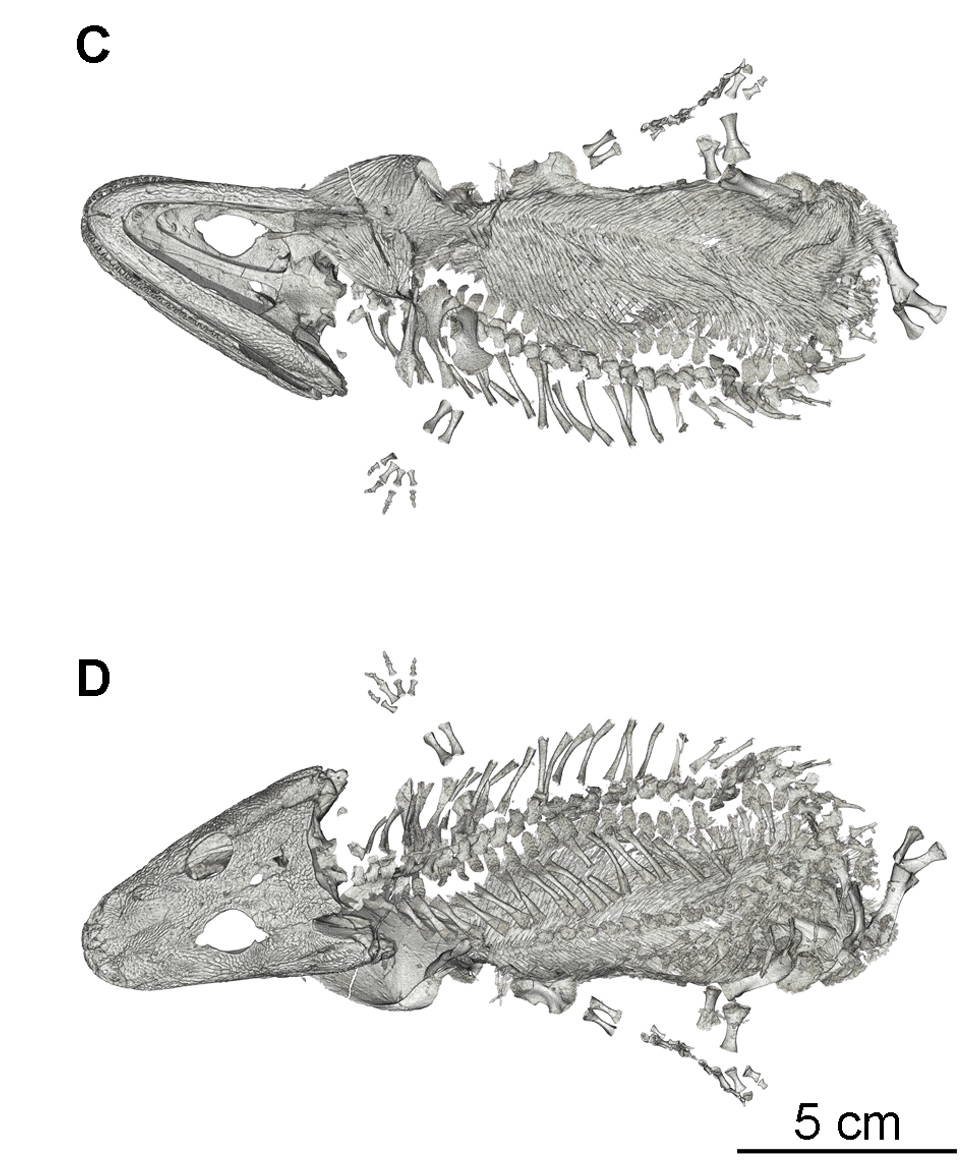 3D rendering of the skeleton of Broomistega putterilli (specimen BP/1/7200) in ventral (C) and dorsal (D) views. Part of the burrow cast BP/1/5558, which also preserves a skeleton of Thrinaxodon liorhinus (specimen BP/1/7199).